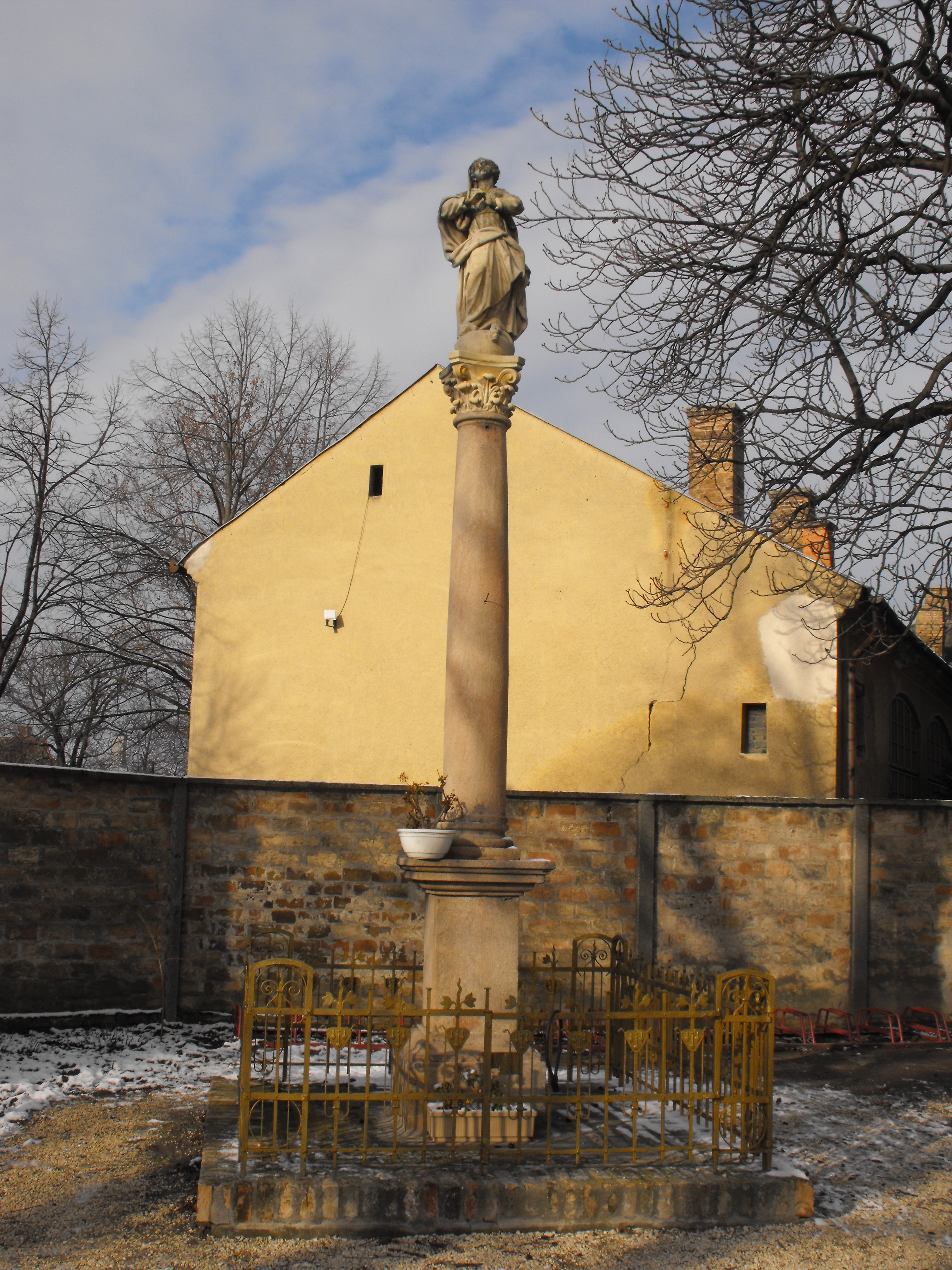 The Immaculata Statue in Makó, Hungary, near to the Saint Stephen Parish Church.